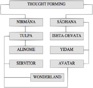 A graph detailing the unique classifications of thought forms and their parent styles of meditation, according to Graeme C. Nash in Neuroholographic Organisms.